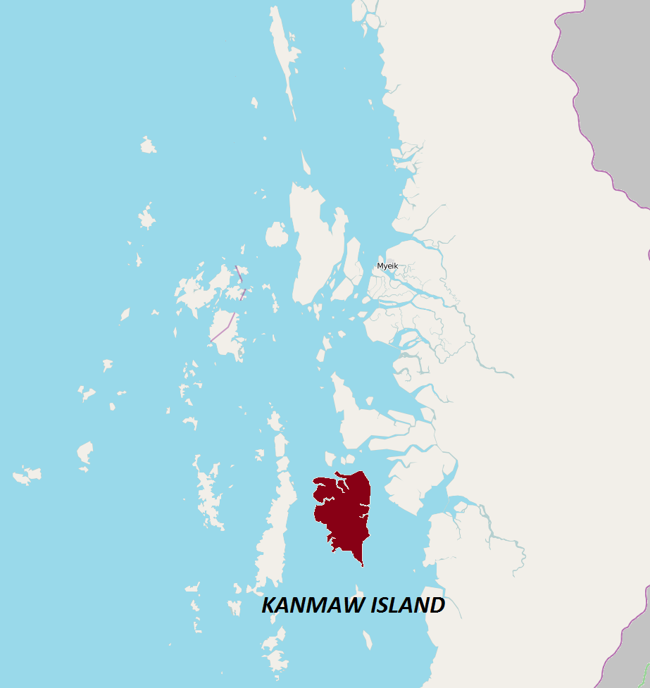 Map highlighting Kanmaw Island in the Mergui Archipelago